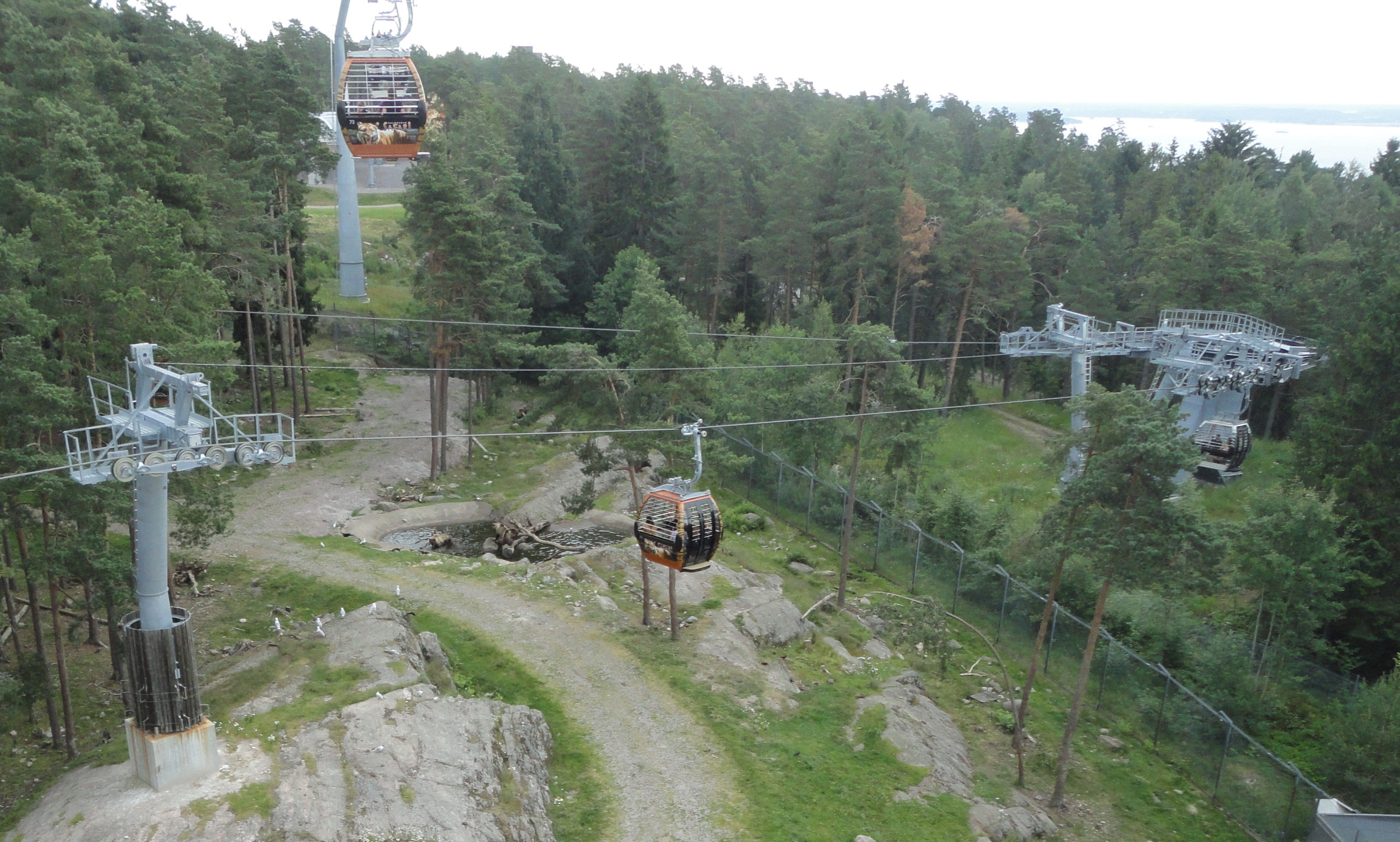 Safari in a Kolmården Zoo